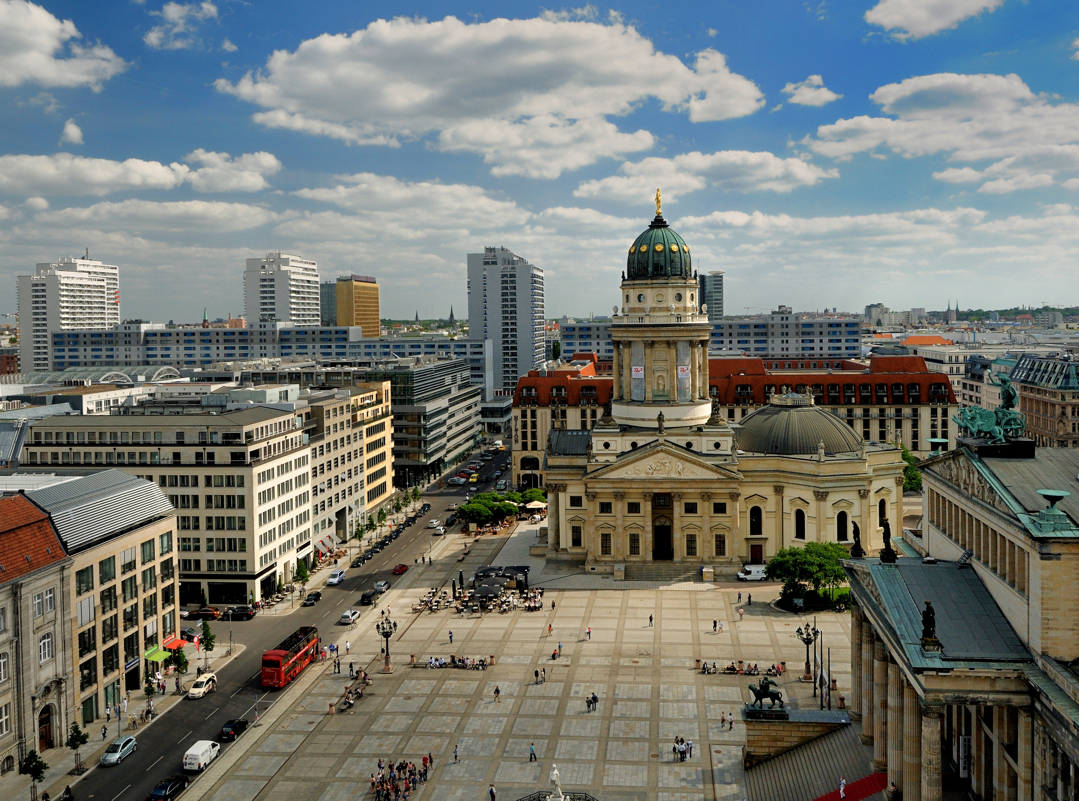 View of the Gendarmenmarkt and Deutscher Dom (German Cathedral) from the Top of Französischer Dom (French Cathedral). 2011